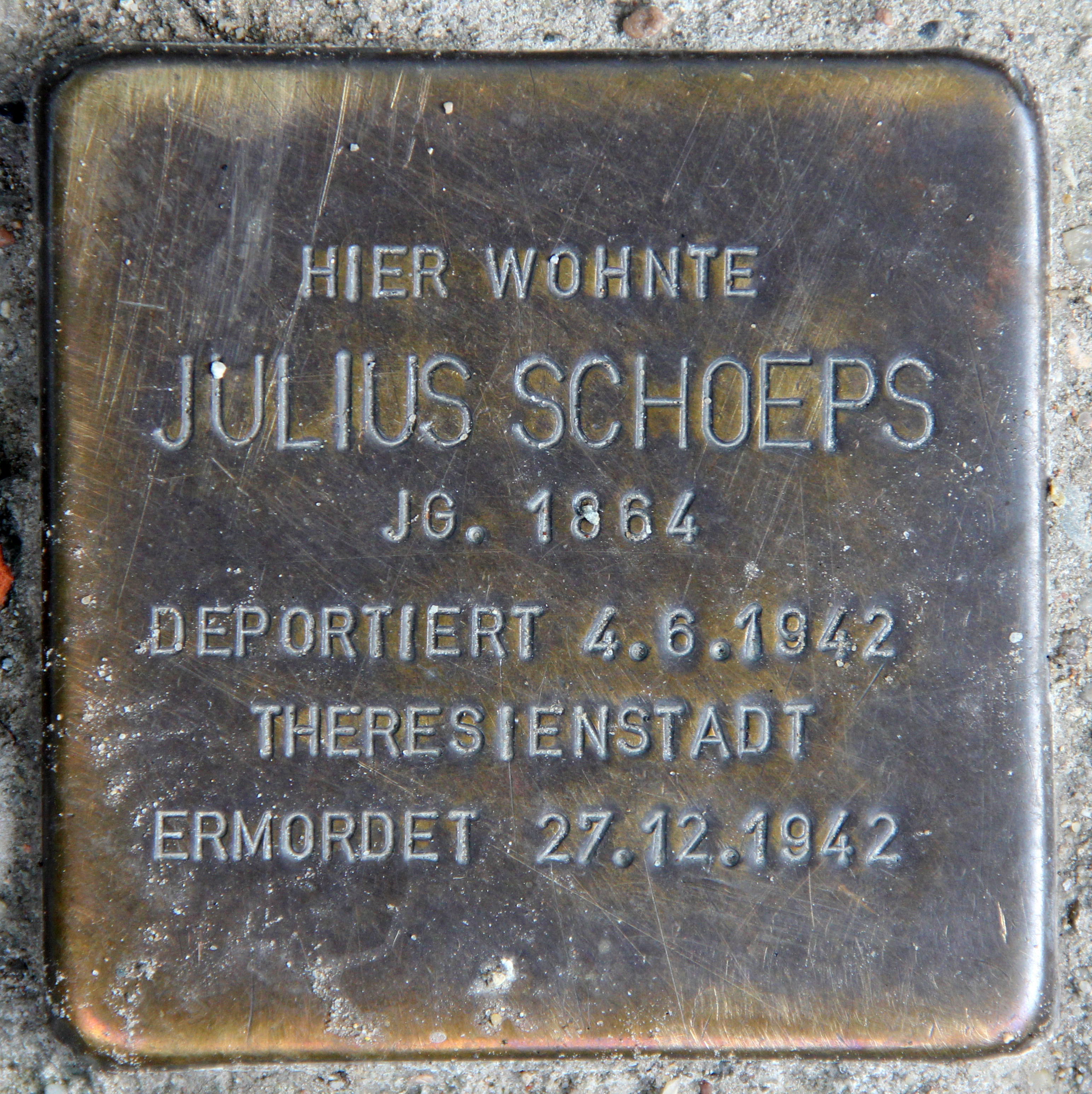 "Stolperstein" (stumbling block), Julius Schoeps, Hasenheide 54, Berlin-Kreuzberg, Germany